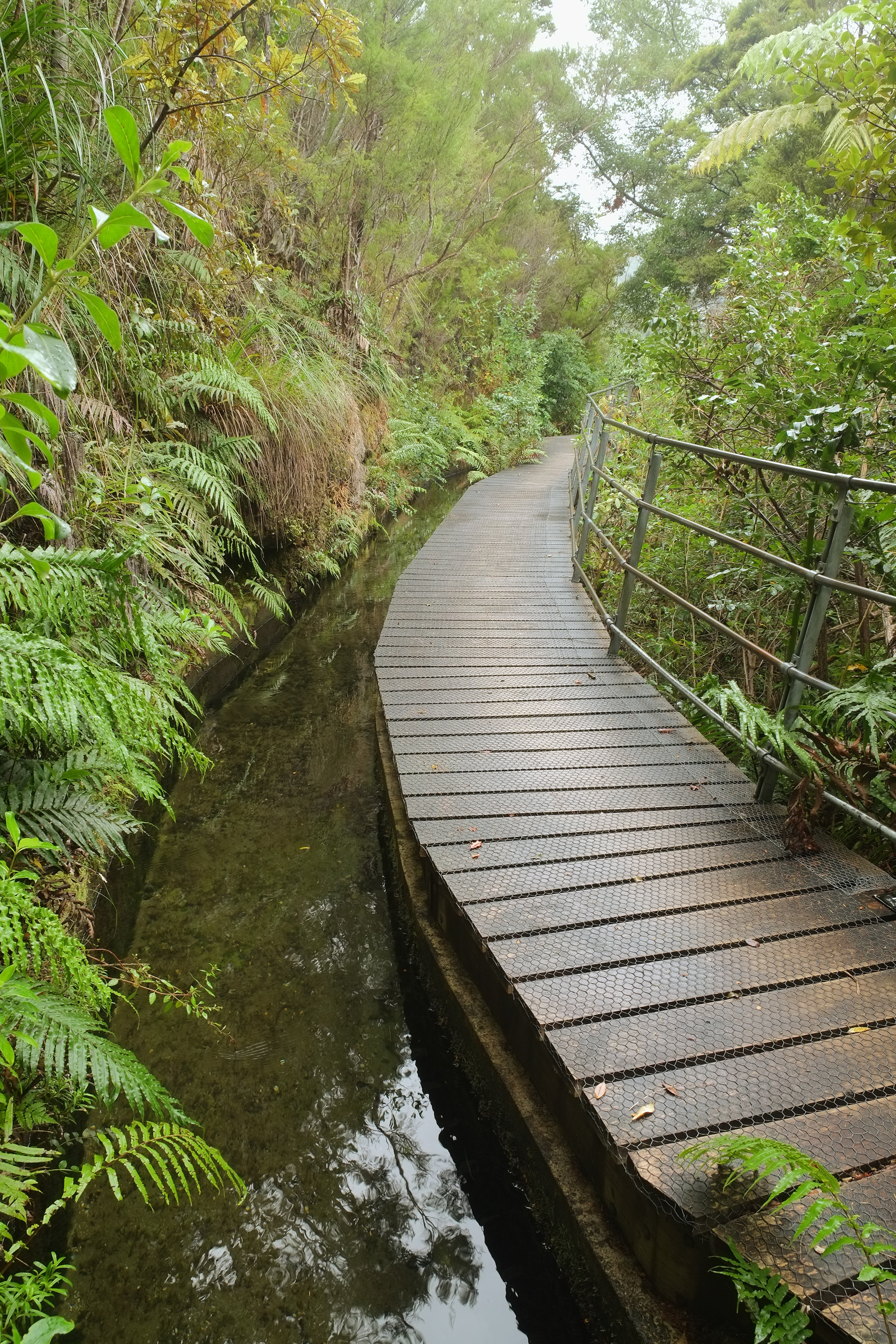 Pupu water-race and curved narrow walkway